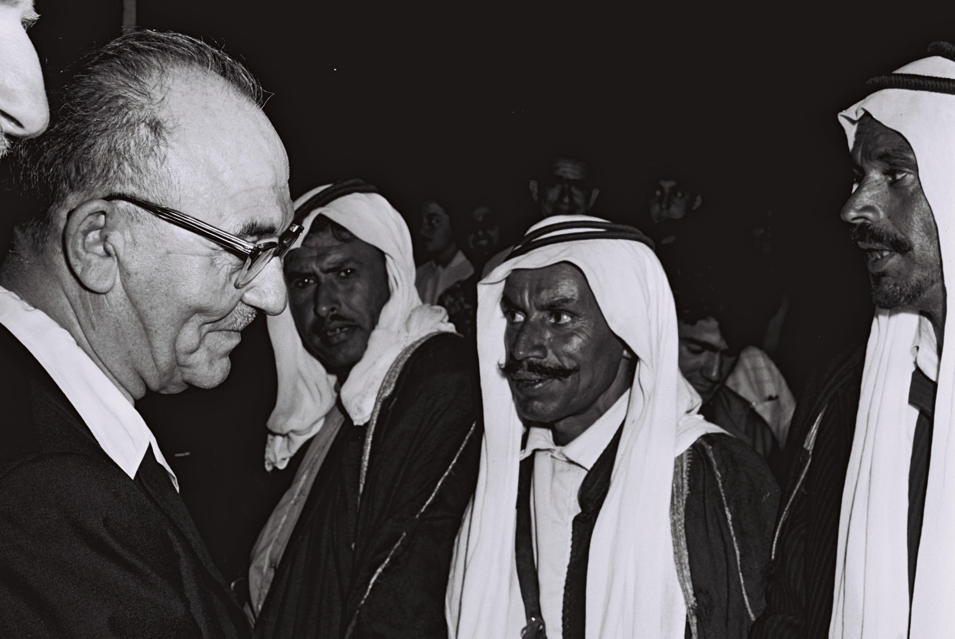 At a garden party given in his honor by the mayor of Beer Sheba, P.M. Levy Eshkol meets the sheiks of the Bedouin tribes surrounding Beer Sheba (04/08/1965).